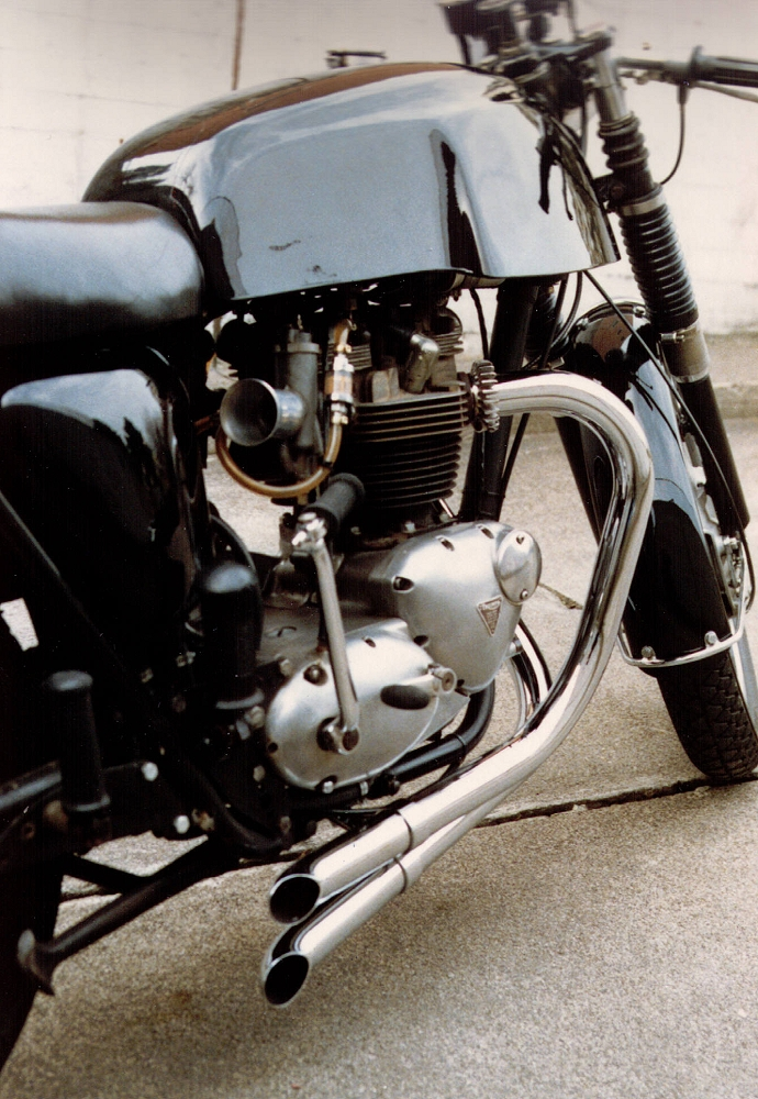 Triumph Bonneville T120 Unit construction motorcycle engine